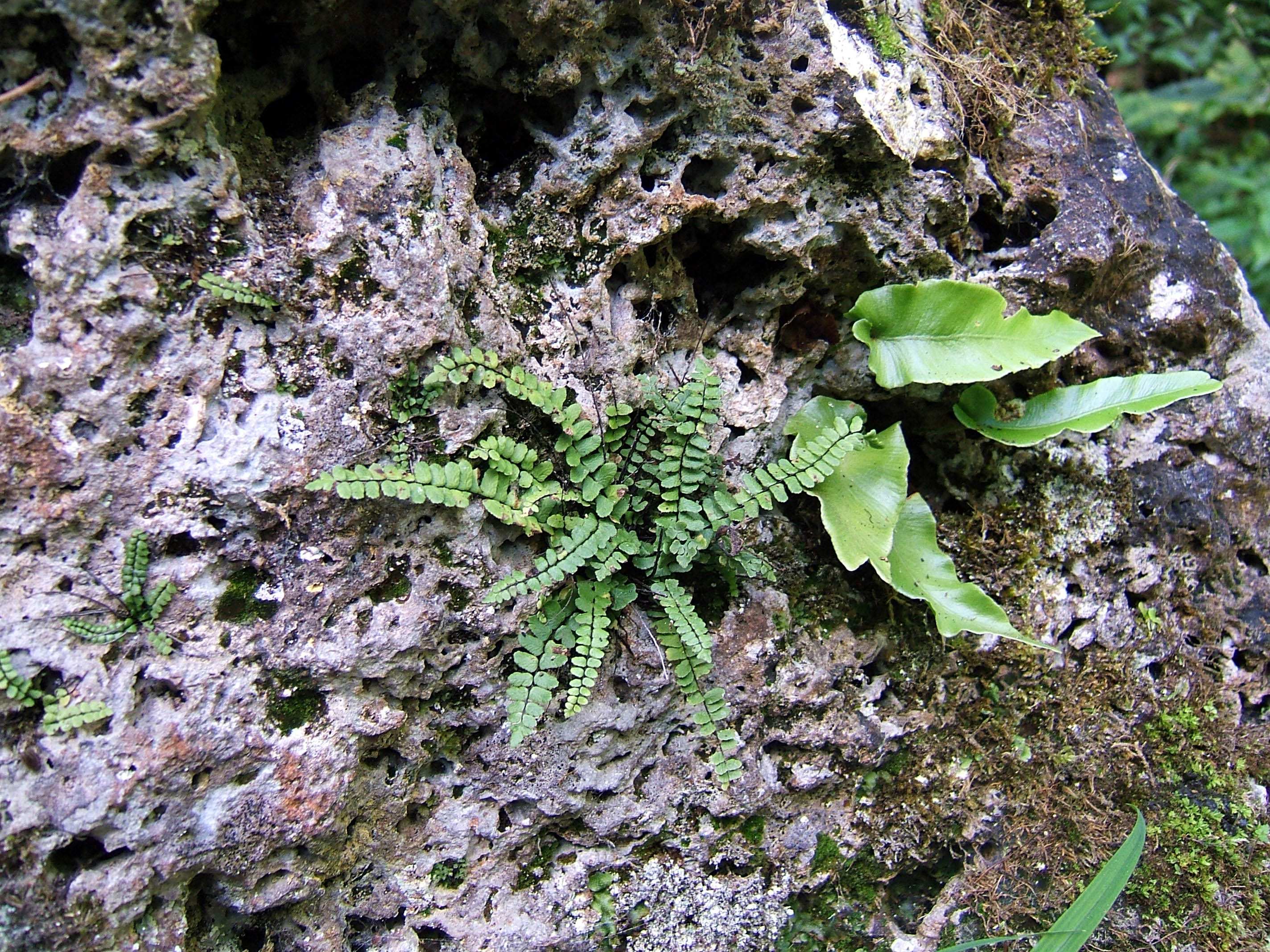 Waterfall near Bad Urach, Germany, ferns on rocks (Asplenium trichomanes, Phyllitis scolopendrium)